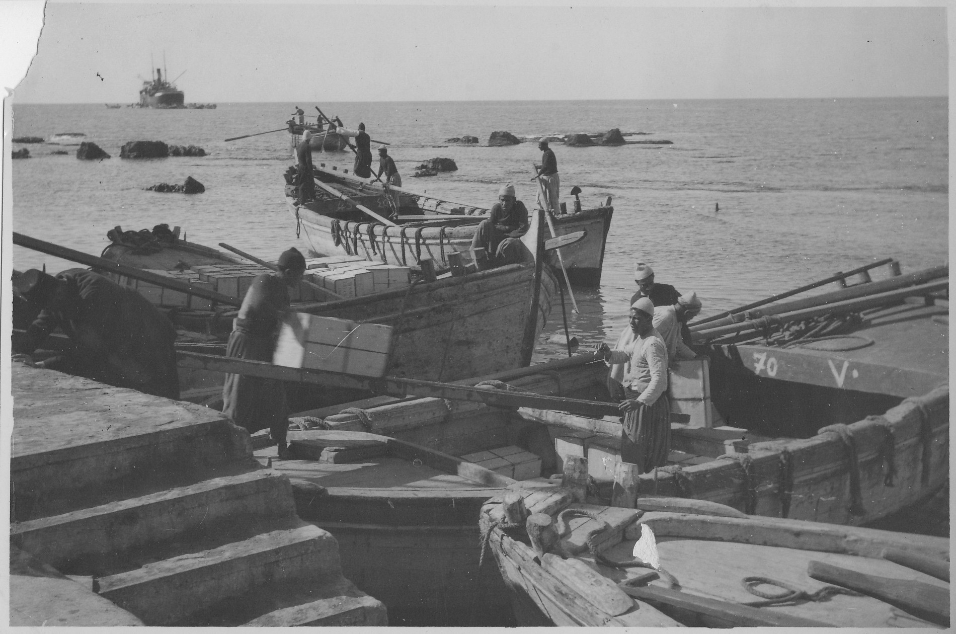 Boats ferrying boxes of oranges to freighter waiting beyong the rocks at Jaffa. circa 1930. Four men per boat, each boat containing several dozen crate. Five or six boat can be seen already around the freighter.